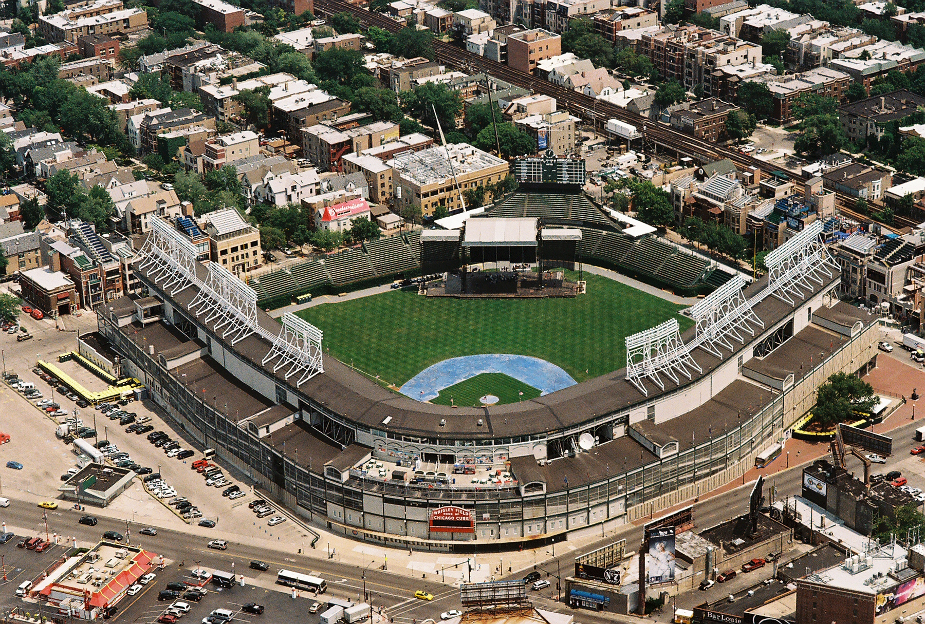 Wrigley Field